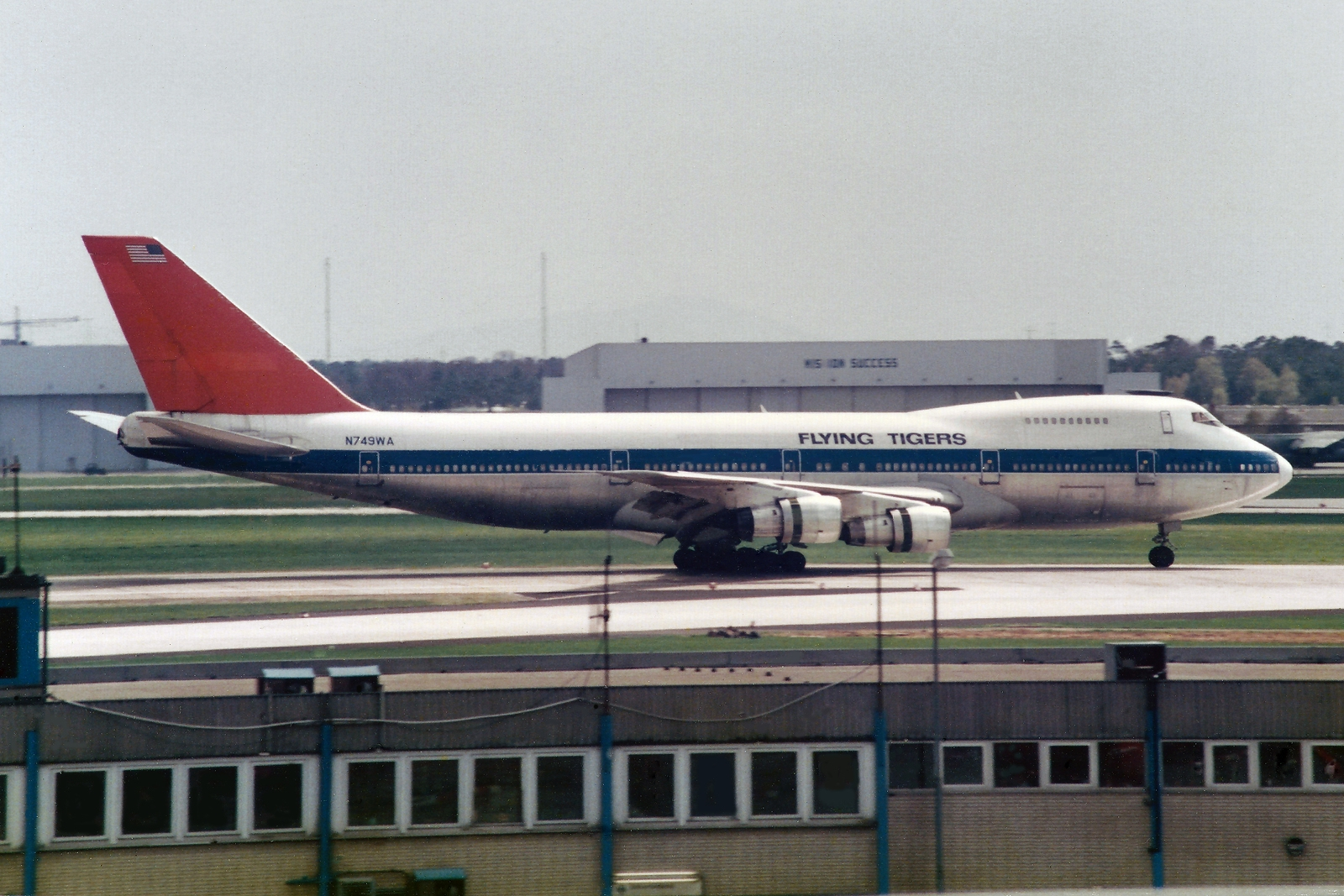 Frankfurt am Main (Rhein-Main AB) (FRA / EDDF / FRF) Germany 4.1985 basic VIASA